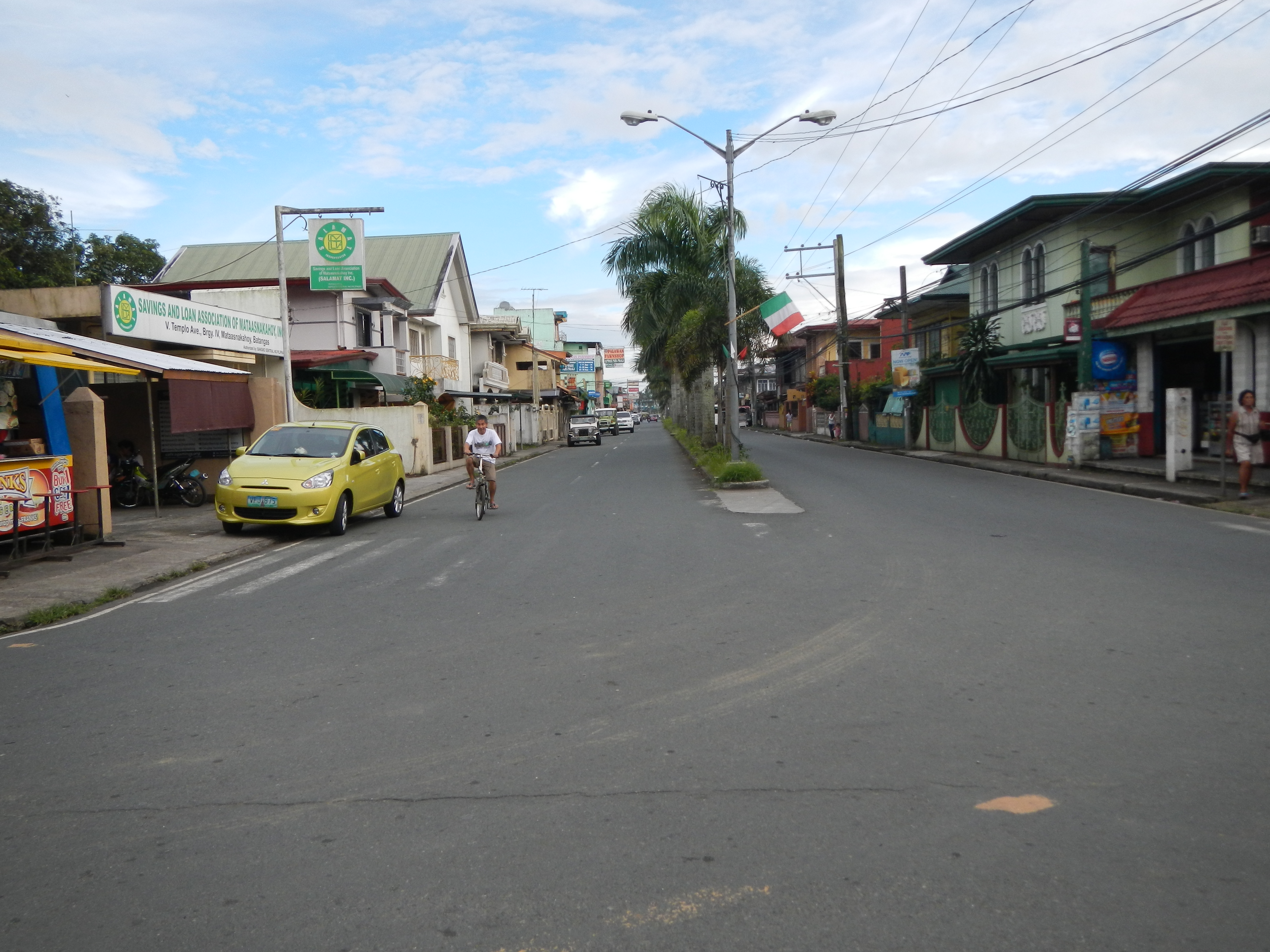 Upload Wizard photos of -- the - (Mayor Danilo M. Sombrano Covered Court, beside the) Mataas na Kahoy Municipal Hall, Mataas na Kahoy, Batangas[1] (a 4th class municipality in the Province of Batangas, Philippines; 2010 census, it has 27,177 people; created by virtue of Executive Order No. 308 signed by George Butte, acting Governor General of the Philippines on March 27, 1931, effective January 1, 1932 has 16 barangays); [2] Geographical location: Batangas, Region 4, Philippines, Asia Geographical coordinates: 13° 57' 30" North, 121° 6' 50" East. [3] Poblacion Coordinates: 13°57'37"N 121°6'52"E, beside the Plaza and near the - Immaculate Conception Parish Church of Mataas na kahoy, Centro, Town Proper, Poblacion.